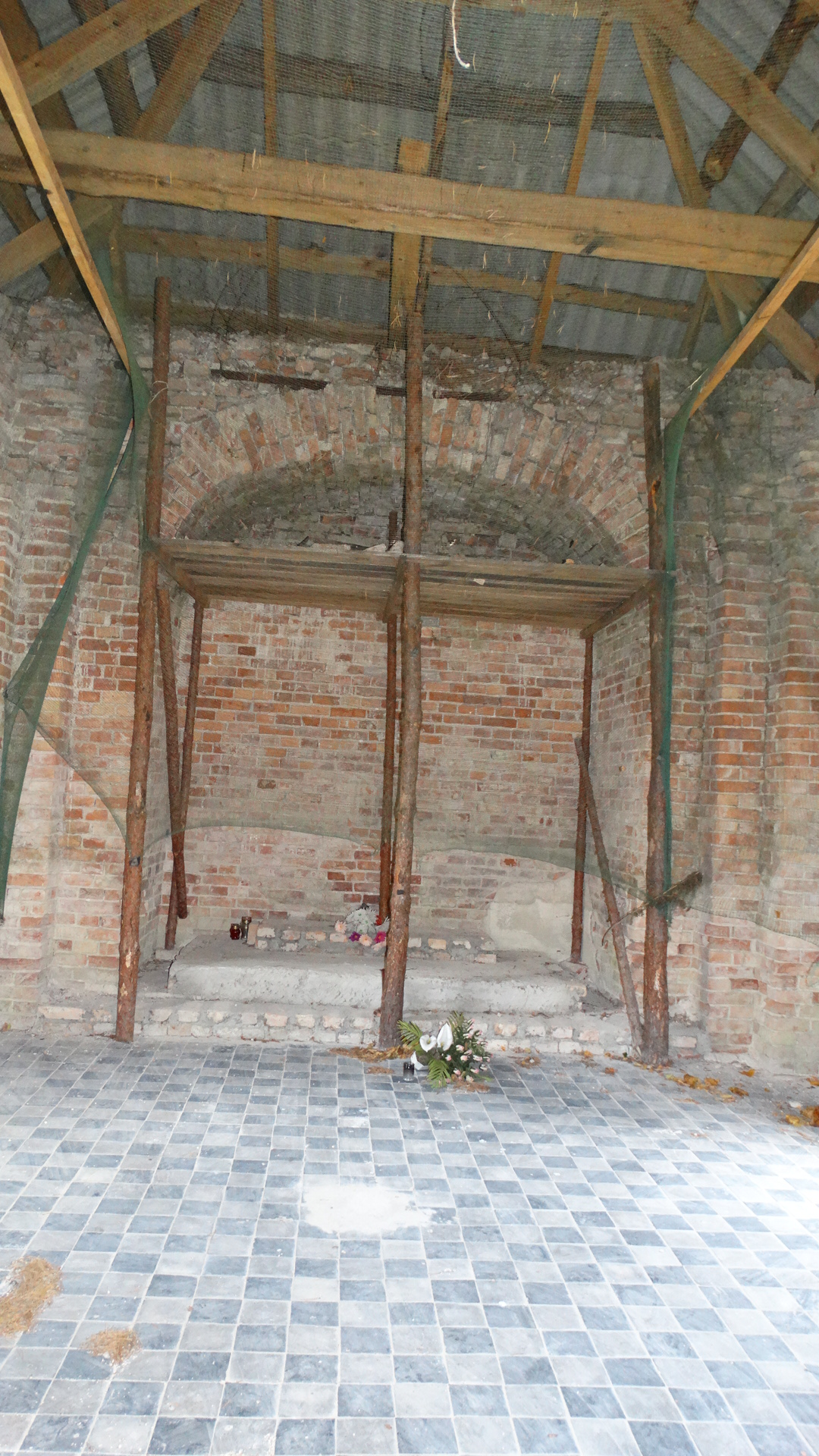 Chapel, Balkasodis, Alytus district, Lithuania